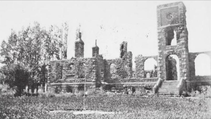 St. Peter's Mission near Cascade, Montana, in the United States, in 1918 shortly after a fire destroyed the stone Ursuline convent and wooden boys' school. This fire caused the permanent abandonment of the mission. St. Peter's was founded by priests belonging to the Society of Jesus (the Jesuits), a Roman Catholic men's religious order. It was established at Bird Tail Rock in 1871 after several previous locations were abandoned. Ursuline nuns joined the mission in October 1884 to assist in running the mission and teaching Native American children. In 1884, the mission consisted of two log buildings -- a chapel with a bell tower connected to a common sleeping area for priests, and a lower structure which consisted of a sleeping area for nuns and a kitchen. A three-story wooden boys' school, a stone convent for the Ursulines (which included classrooms for girls), bake house, laundry, chicken yard, barn, opera house, and corral were built over the next 25 years.